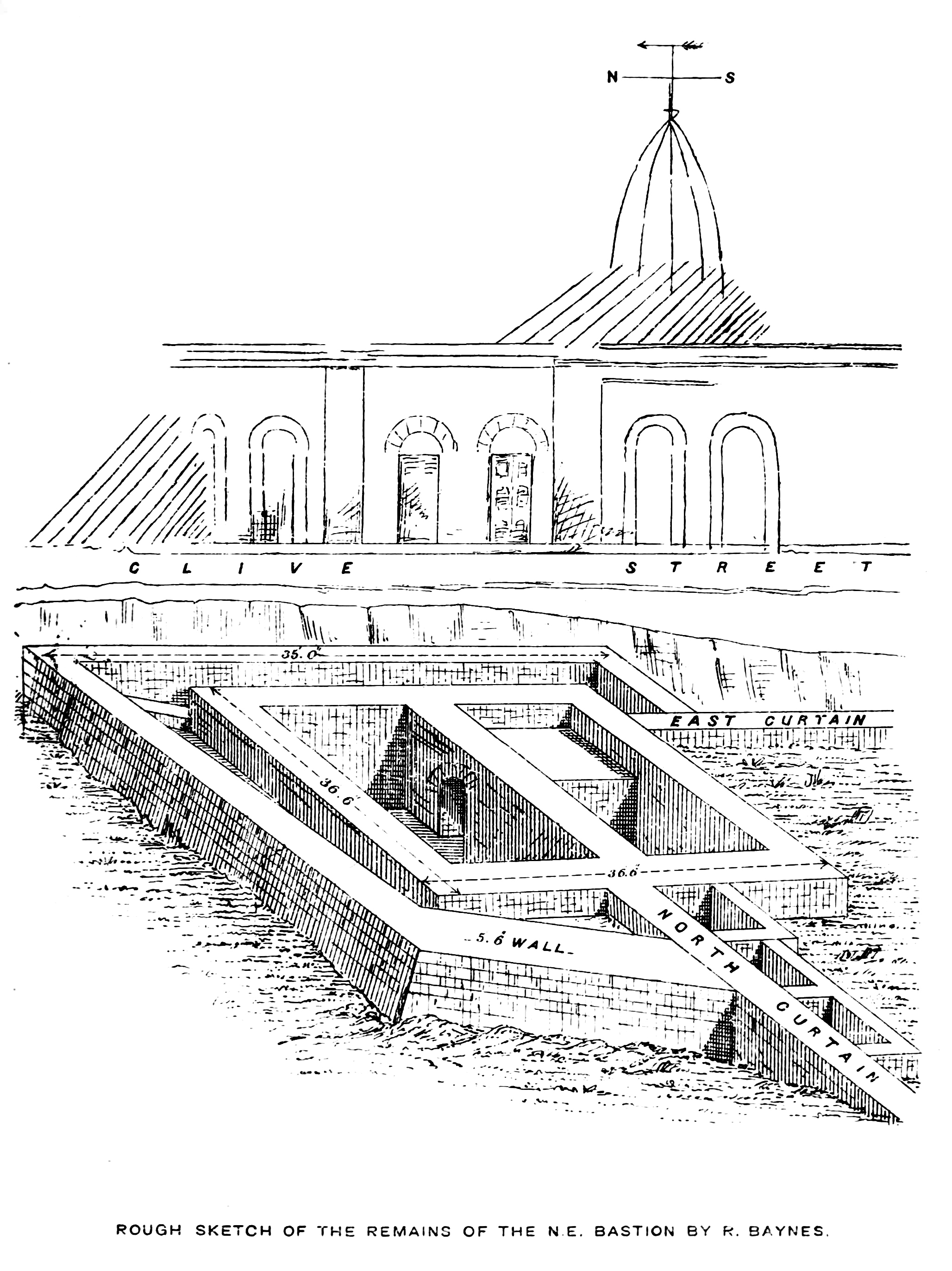 Rough sketch of the remains of the N.E. bastion by Roskell Bayne. Journal of the Bengal Asiatic Society 52(1)